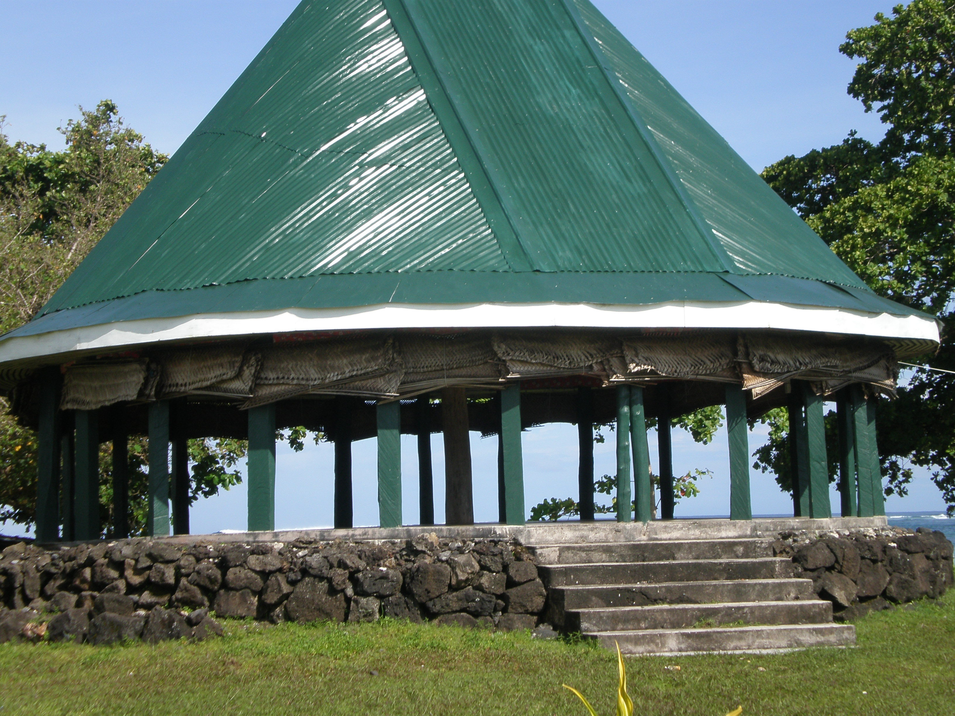 Round Samoan traditional fale with green roof, Lelepa village, Savaii, Samoa